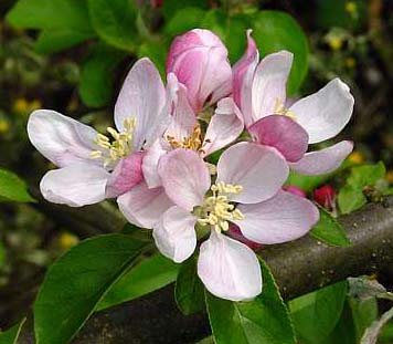 from nl wikipedia. appelbloesem (foto van Wouter Hagens)